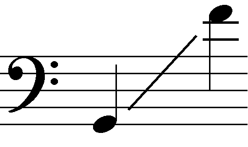 Range of a baritone voice